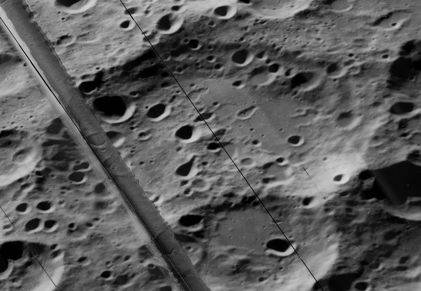 Oblique view of Fowler, on the far side of the moon, facing west. Band crossing image is artifact of original.